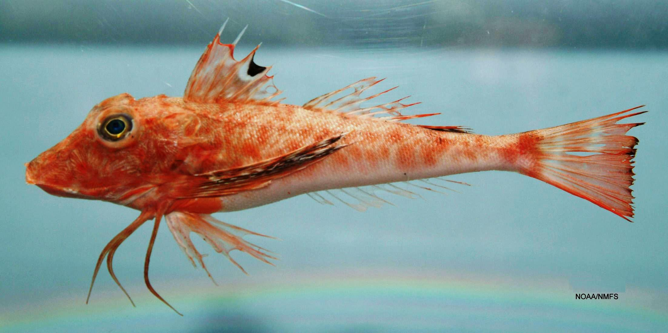 Mexican searobin ( Prionotus paralatus )